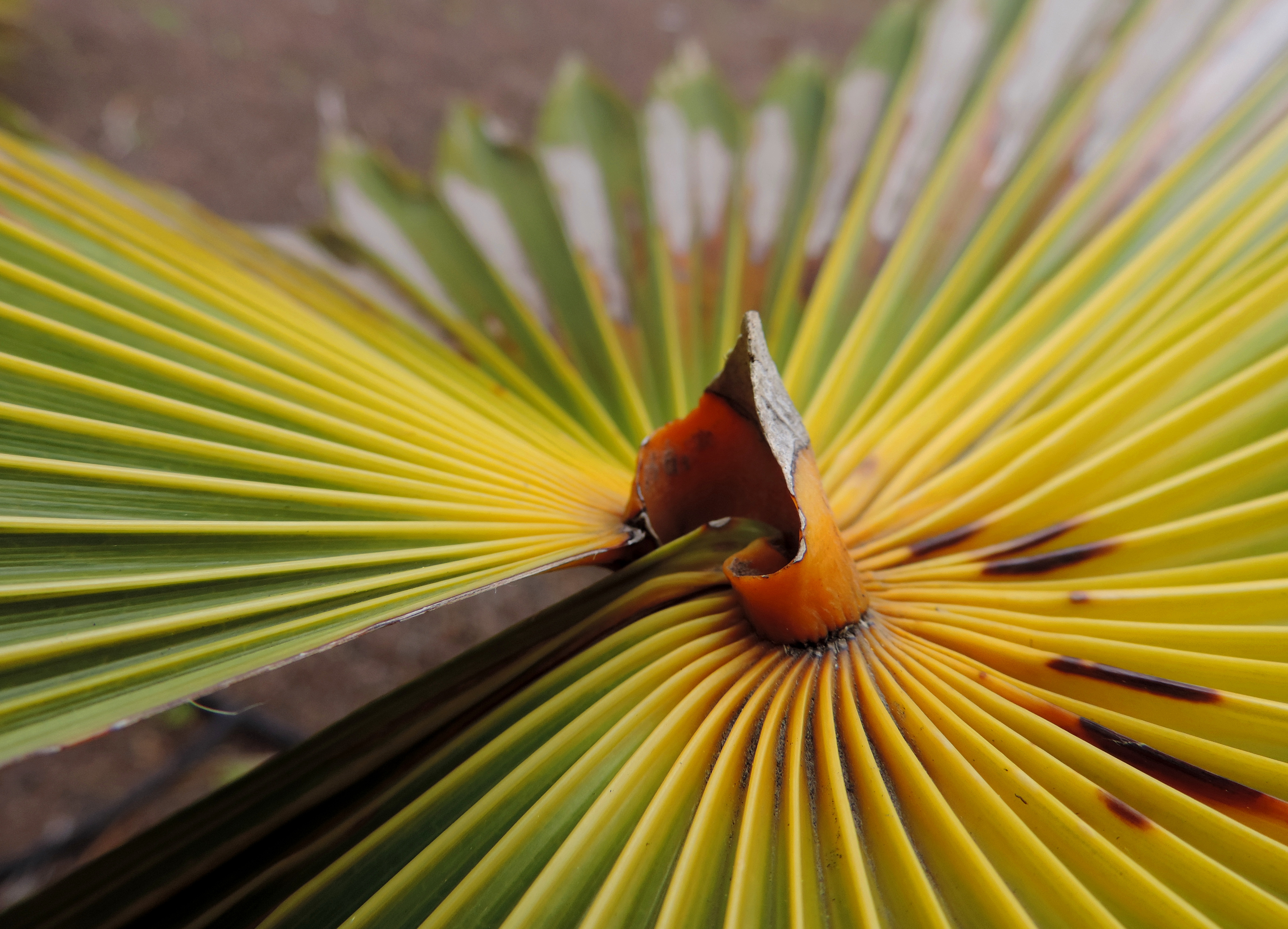 Coccothrinax argentea in Jardín Botánico Canario Viera y Clavijo, Gran Canaria. Hastula